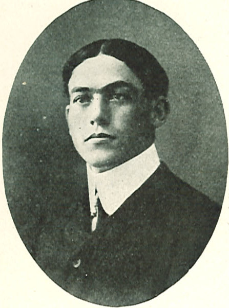 Photograph of John Chalmers